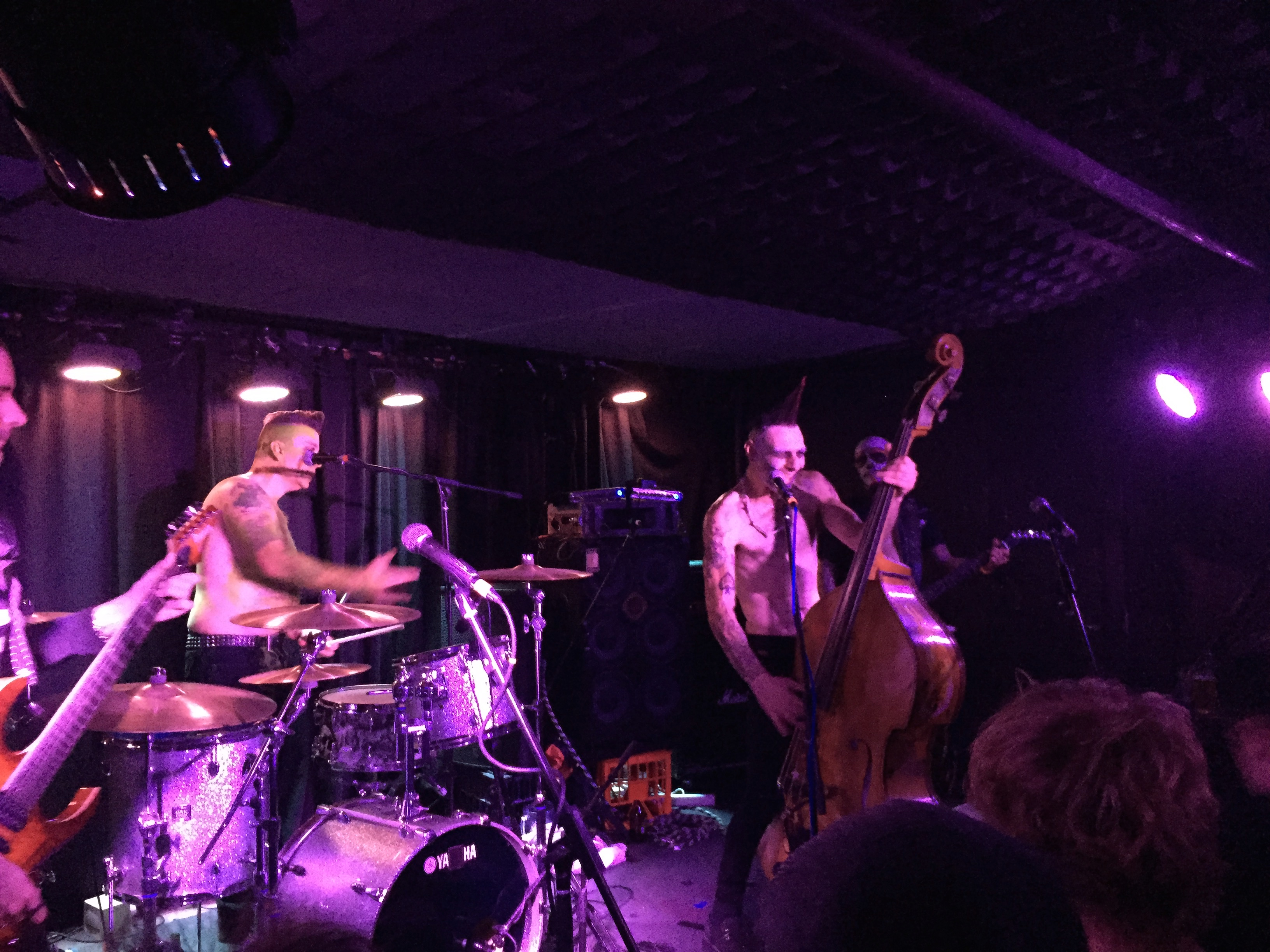 Australian psychobilly band Fireballs, performing a New Year's Eve show on 1 January 2015 at the Bendigo Hotel, Collingwood, Melbourne.